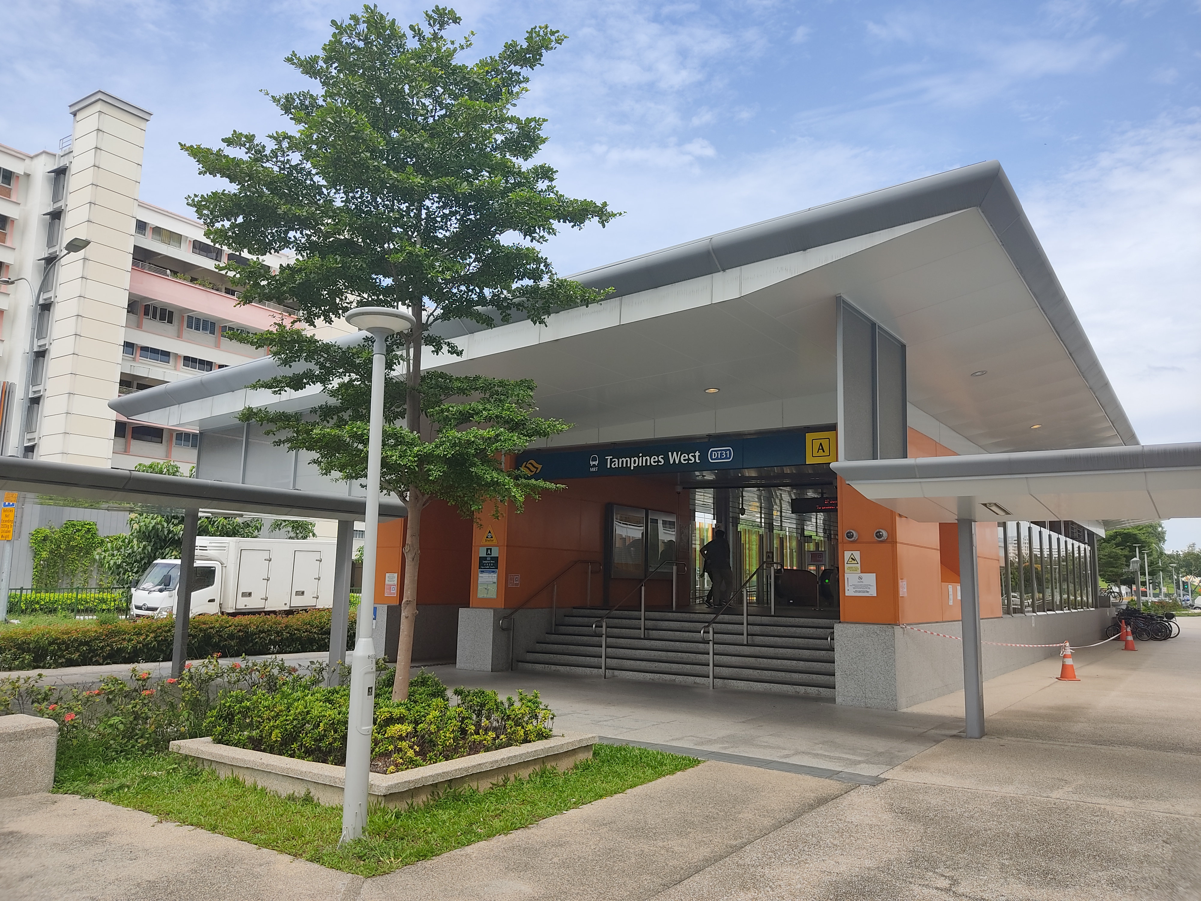 This file supersedes the file DT31 Tampines West Exit A.jpg. It is recommended to use this file rather than the other one.